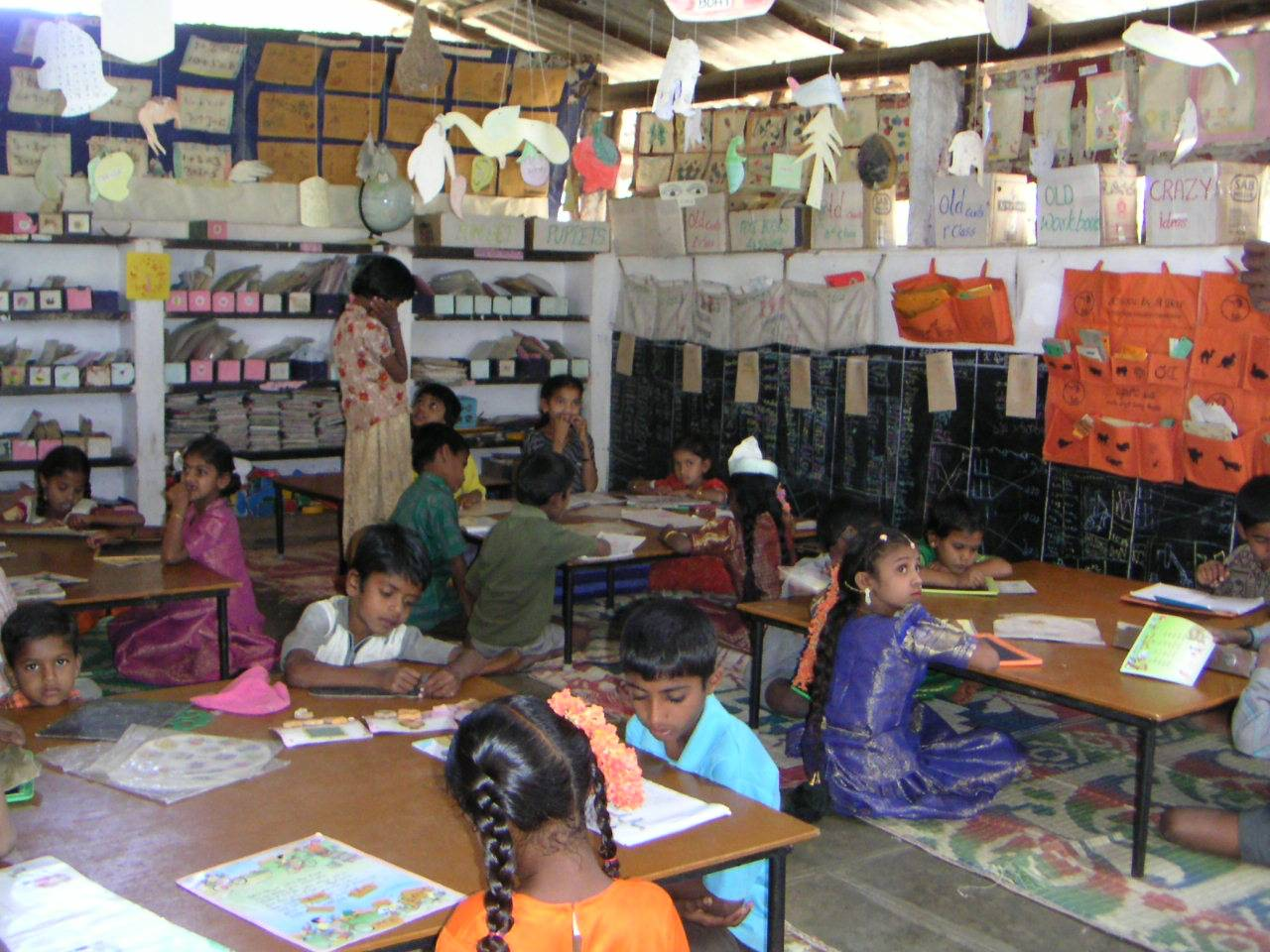 classroom Satellite-School